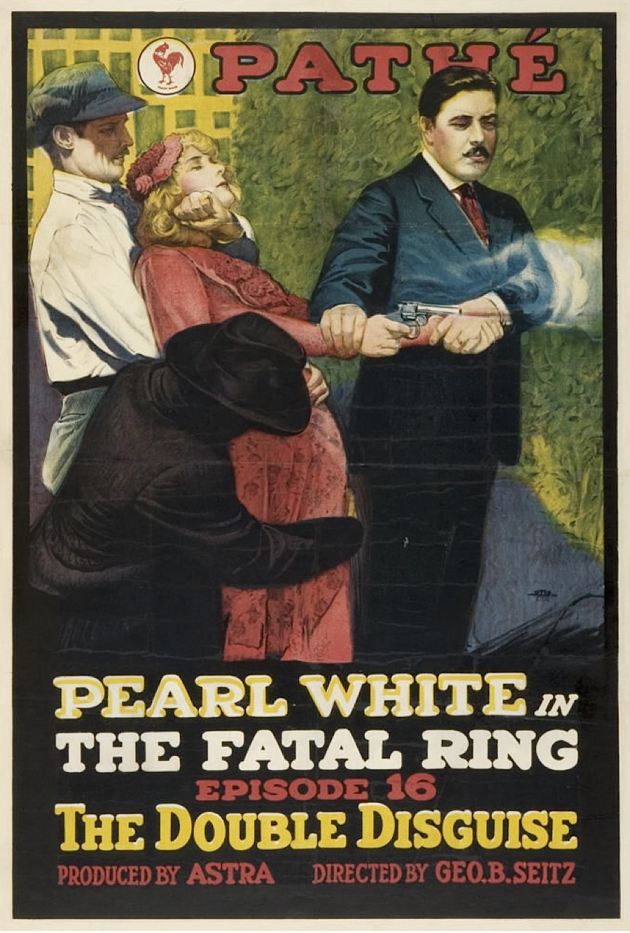 Poster for episode 16 of The Fatal Ring (1917), an American action film serial directed by George B. Seitz.